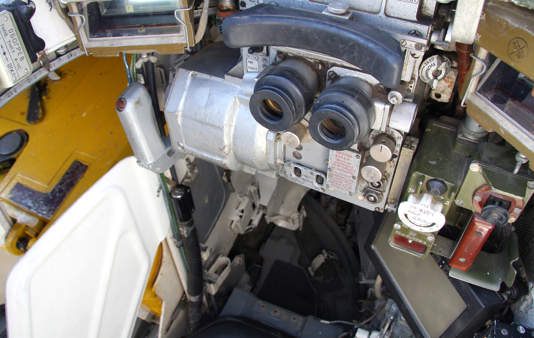 A T-80U tank interior. Commander